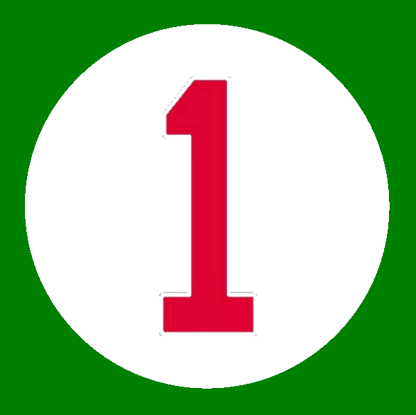 Red Sox retired numbers as hung on the right-field facade during the 2016 season in Fenway Park